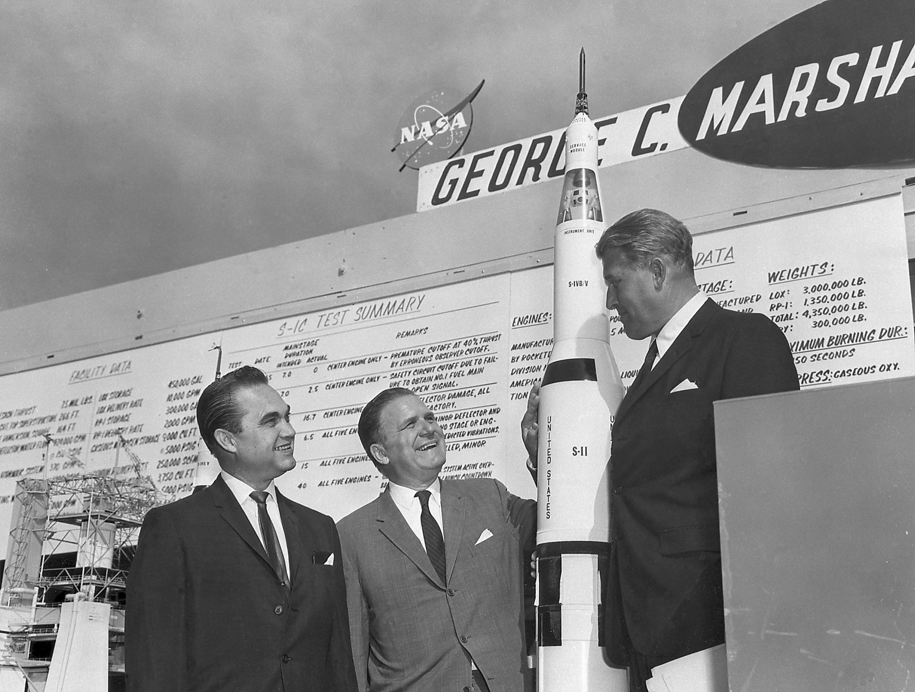 Alabama governor George Wallace (left), NASA Administrator James E. Webb and Marshall Space Flight Center Director Wernher von Braun during a tour of MSFC on June 8, 1965. Governor Wallace and Dr. Webb were at MSFC to witness the first test firing of a Saturn V Booster, along with members of the Alabama legislature and press reporters.